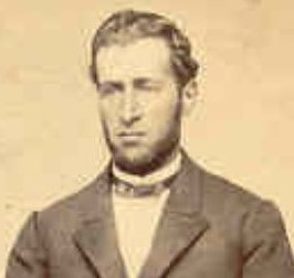 Benjamin Levy photograph, date unknown